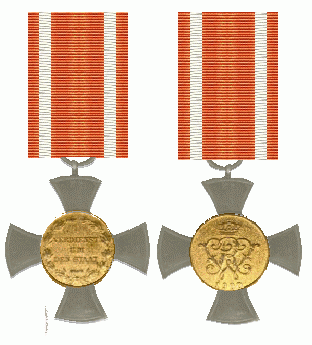 Allgemeines Ehrenzeichen Preussen Kreuz aus 1900